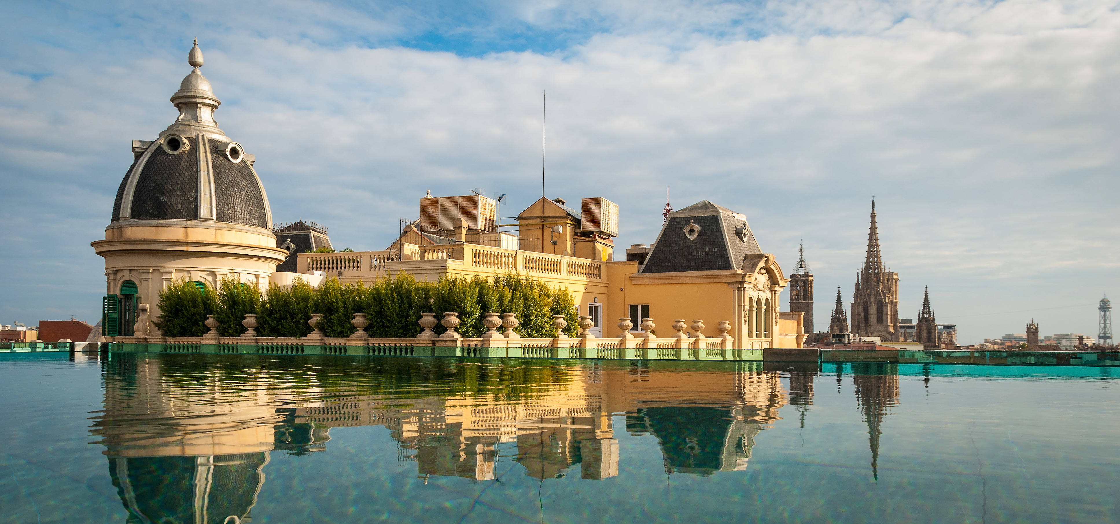 View from Hotel Ohla, Barcelona, Spain.